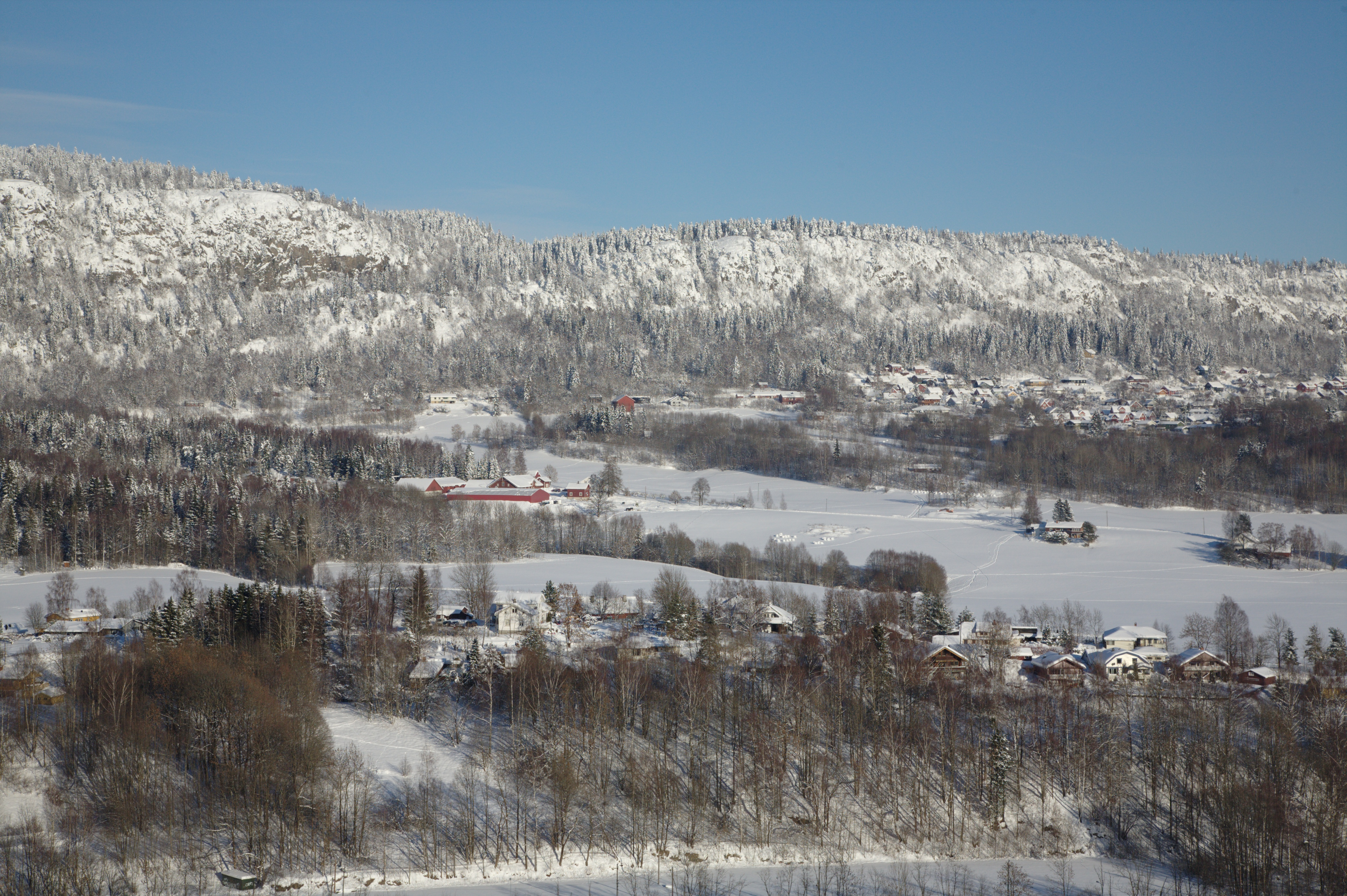 View of Bærum from Skuibakken